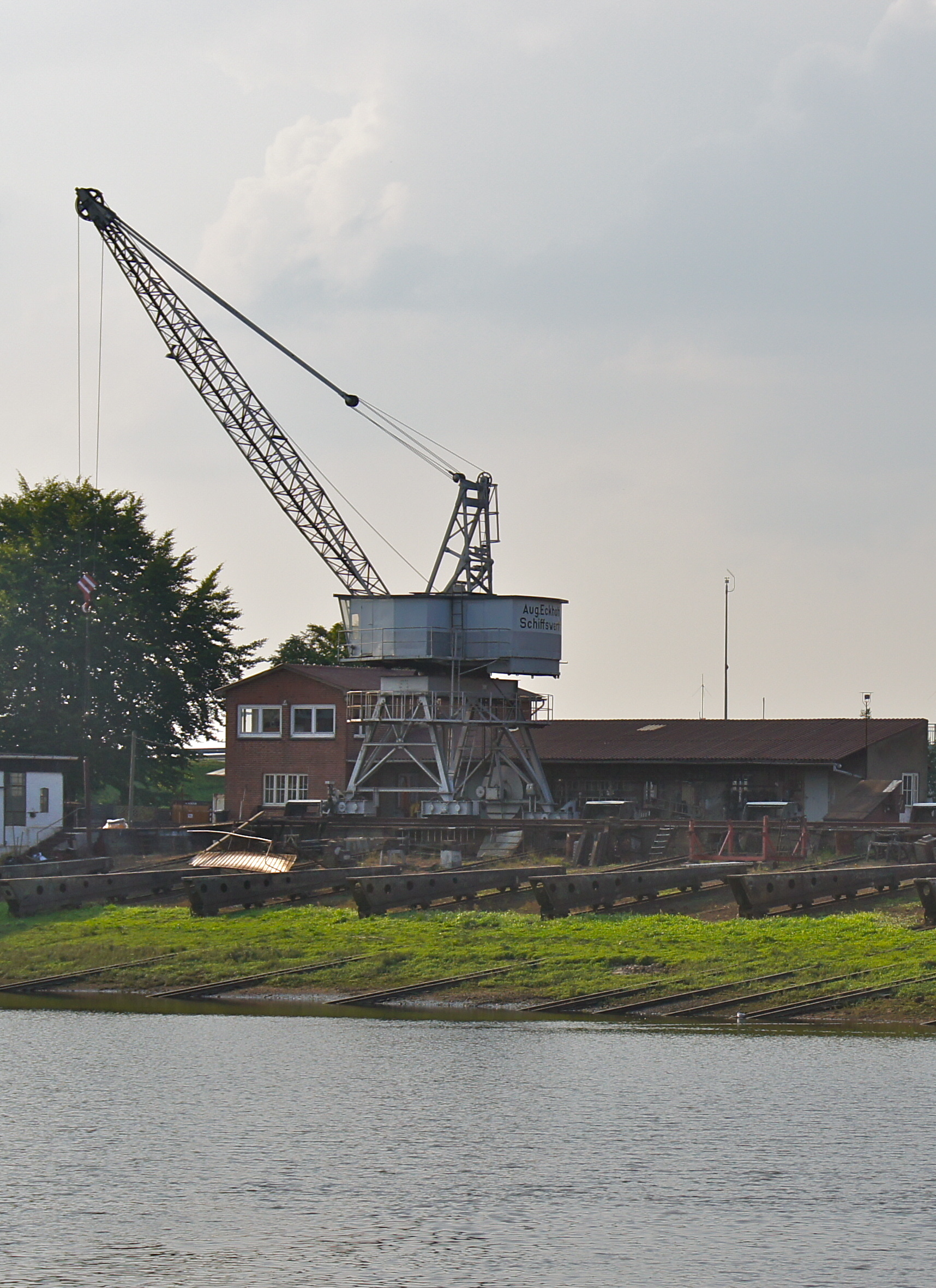 Winsen (Luhe) (Stöckte), Germany: Crane at the Aug. Eckhoff warft in the Port on the Ilmenau river